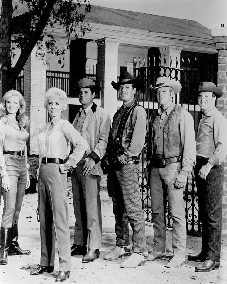 Photo of the cast of the television Western The Big Valley. From left: Linda Evans (Audra), Barbara Stanwyck (Victoria), Richard Long (Jarrod), Peter Breck (Nick), Lee Majors (Heath) and Charles Briles (Eugene).